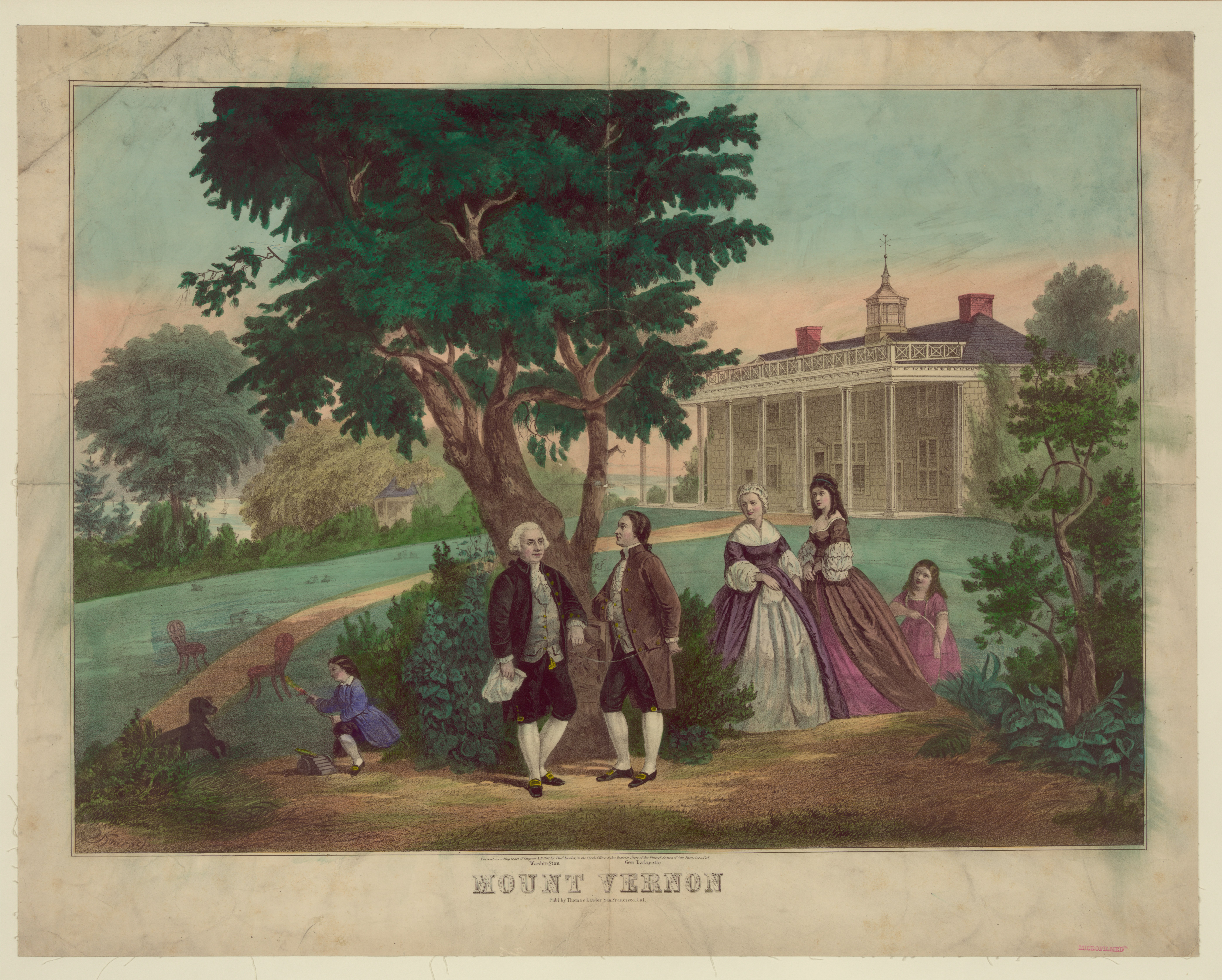 Title: Mount Vernon Abstract: George Washington and the Marquis de Lafayette are in group on lawn. Physical description: 1 print. Notes: Associated name on shelflist card: Lawler, Thomas.; This record contains unverified data from PGA shelflist card, with subsequent revisions.